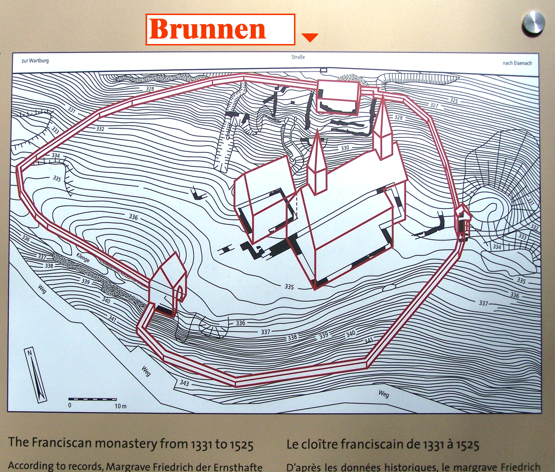 Eisenach, Elisabethplan, exhibition. Visualisation of the Franciscan monastery from 1331 to 1525 on a board.